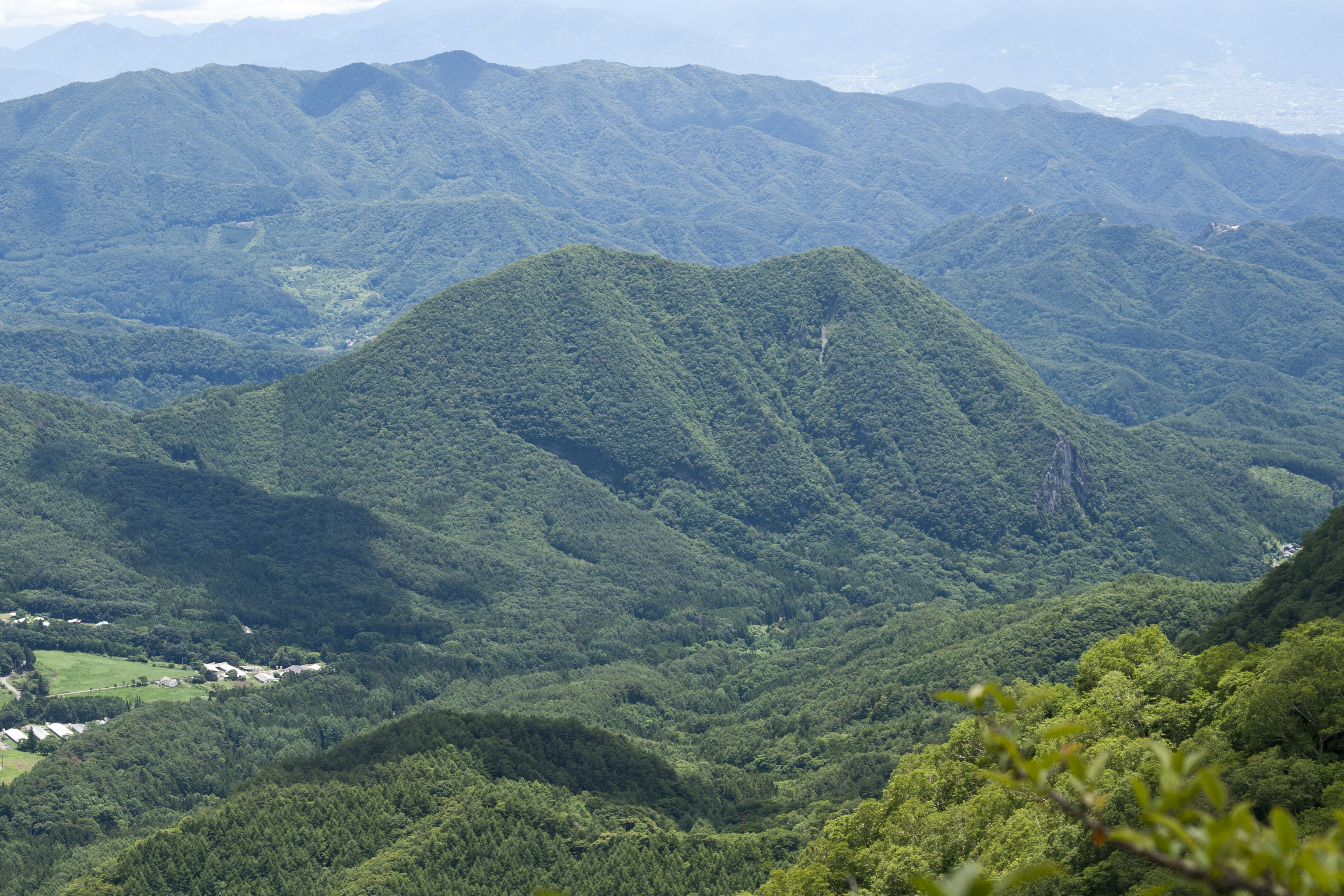 Mount Tachioka from Mount Kayagatake, Yamanashi Pref., Japan.